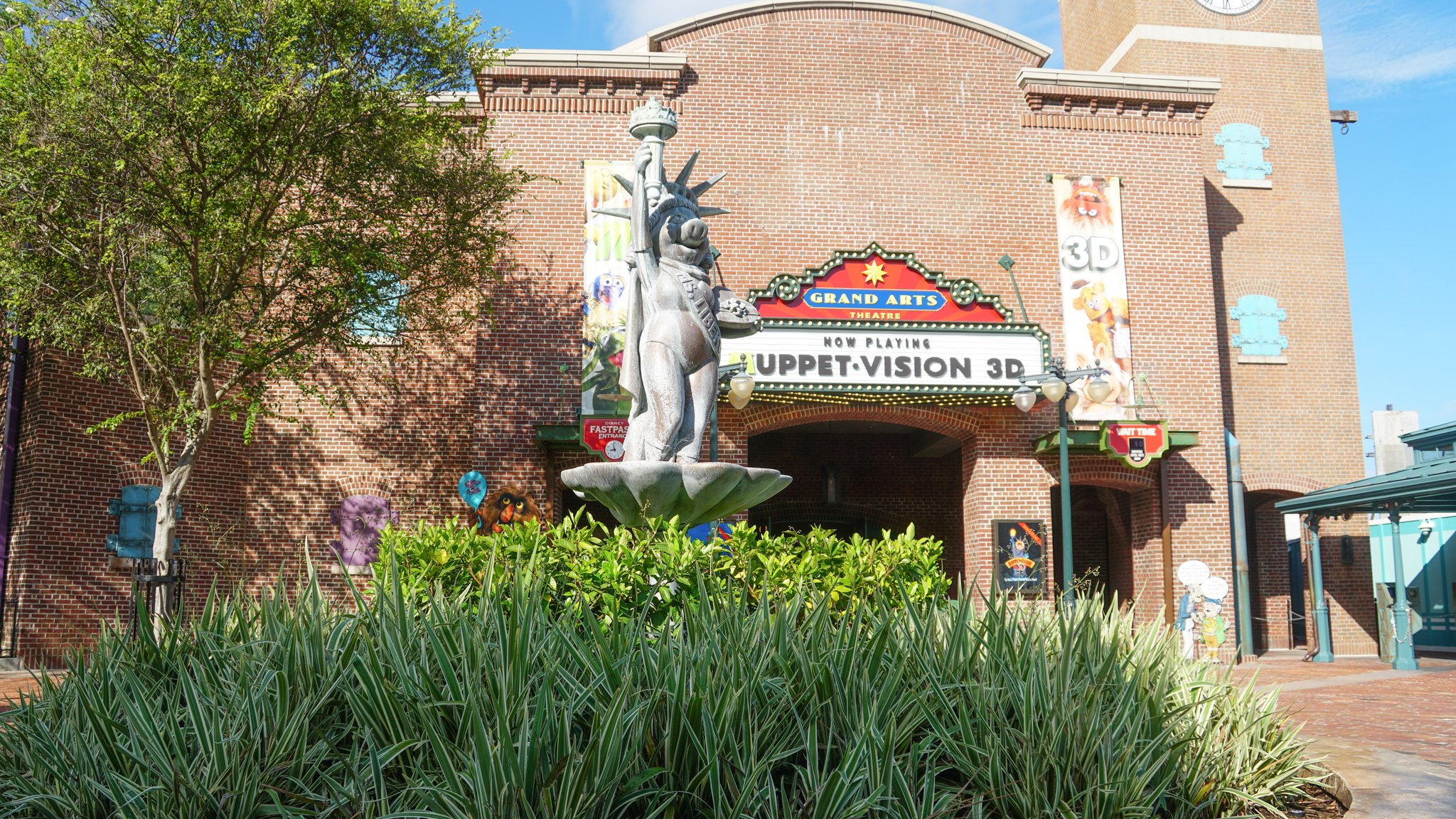 The marquee and exterior of Muppet*Vision 3D at Disney's Hollywood Studios in 2017.